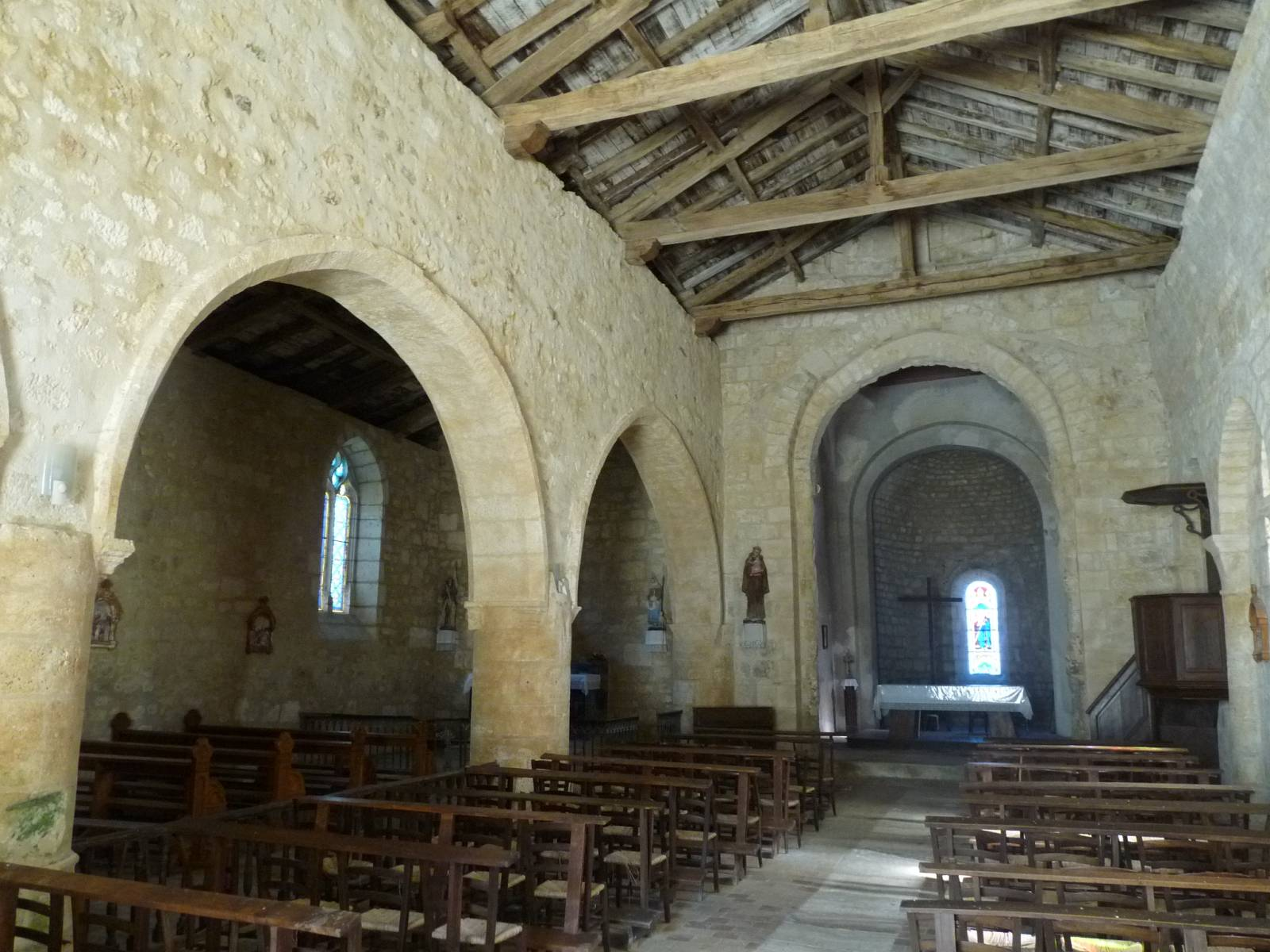 church of Grassac, Charente, SW France